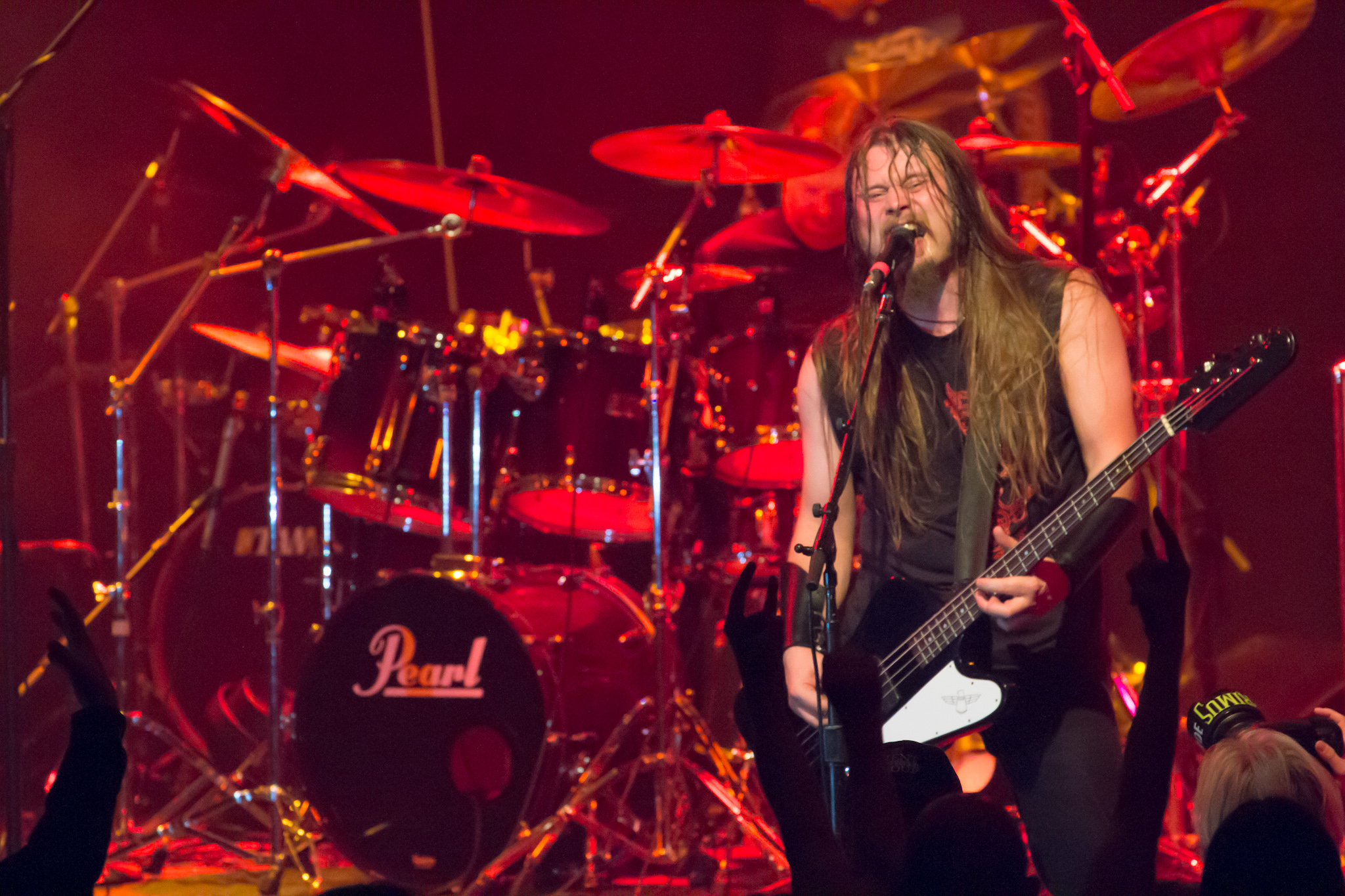 Enslaved playing on the "Barge to Hell" metal cruise in 2012